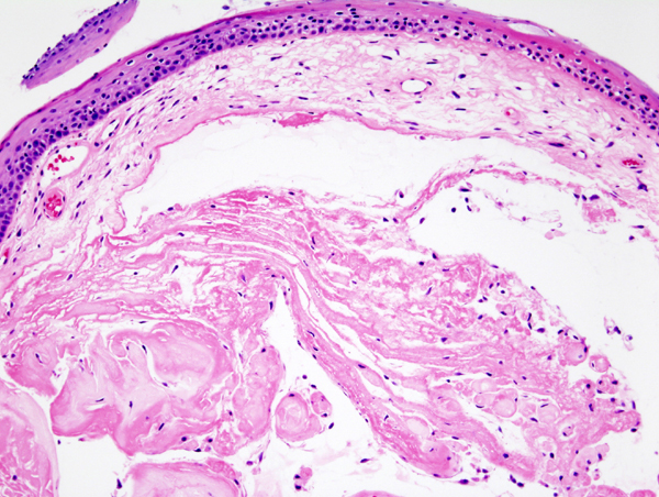 Histopathologic image of vocal fold nodule or polyp. Biopsy specimen. H & E stain.